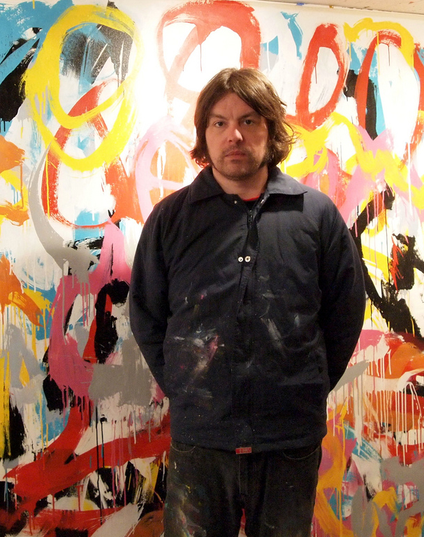 Mikey Welsh standing in front of some of his artwork at his home studio in Burlington, Vermont.